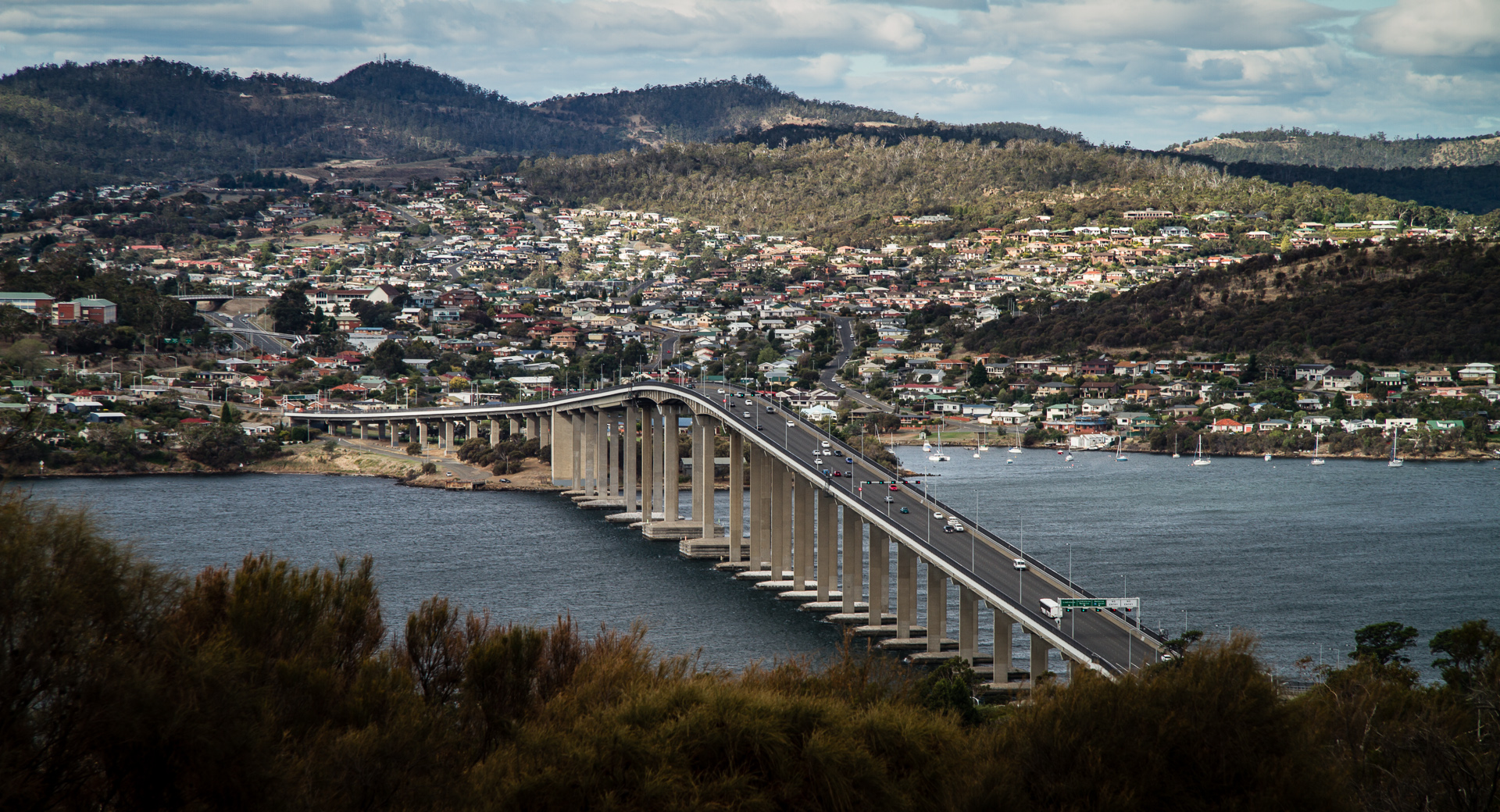 Connection to the east